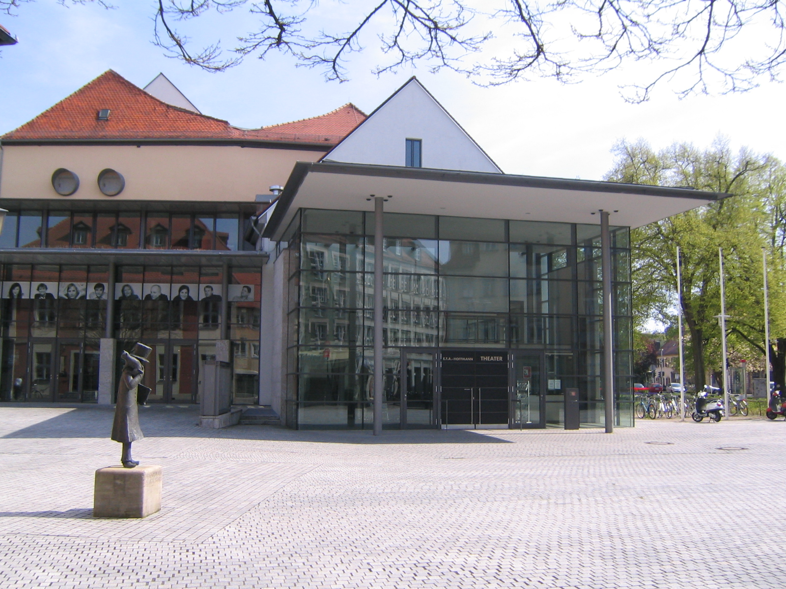 Main entrance of the E.T.A.Hoffmann Theatre in Bamberg